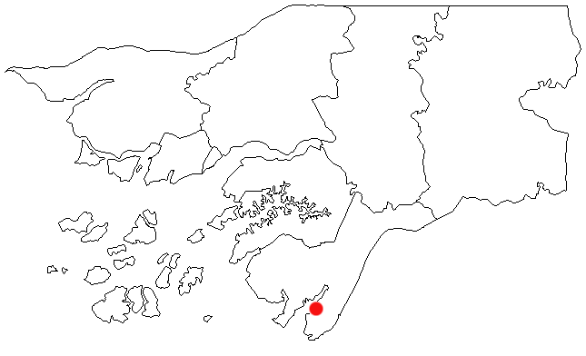 The location of Cacine in Guinea-Bissau This file is made by uploader.